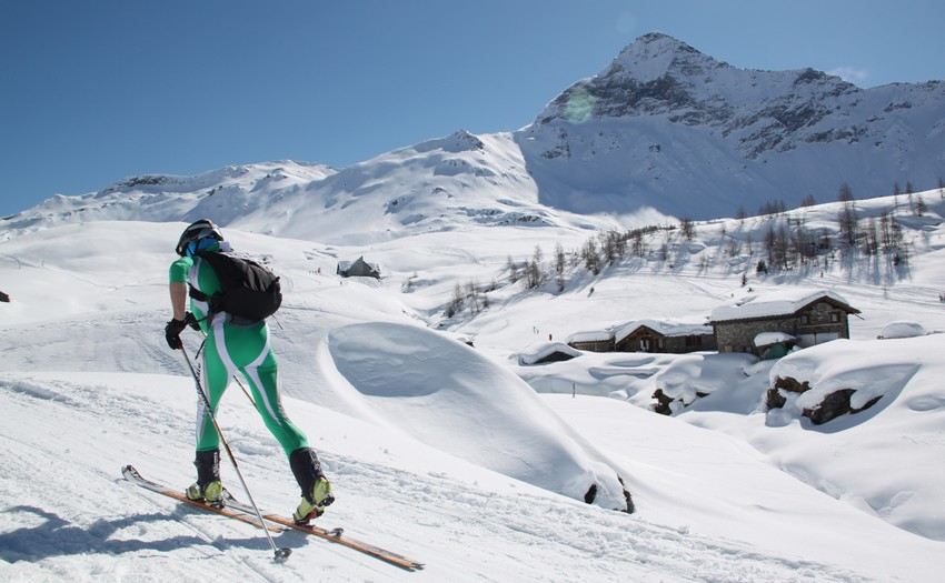 Pizzo Scalino ski mountaineering race